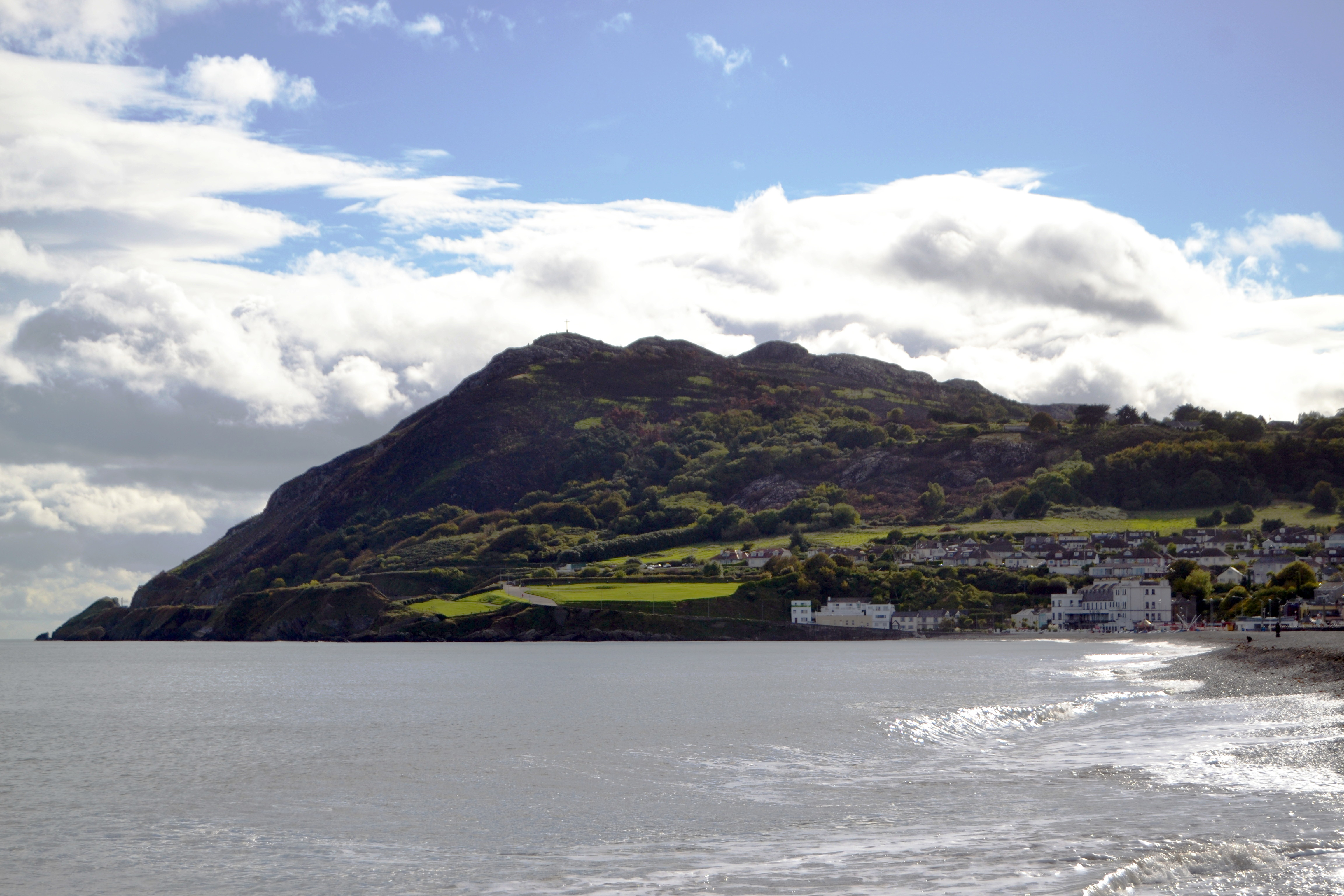 Republic of Ireland: Bray (Wicklow), Bay